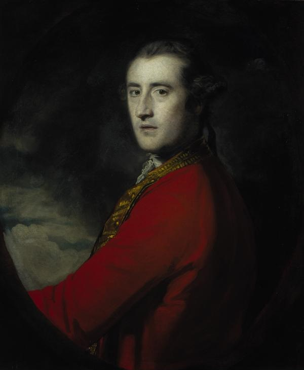 Painting of Sir David Lindsay by Joshua Reynolds